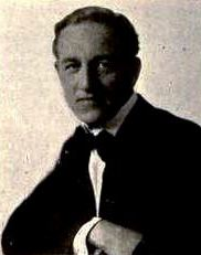 American film director Hampton Del Ruth, on page 1664 of the August 23, 1919 Motion Picture News.